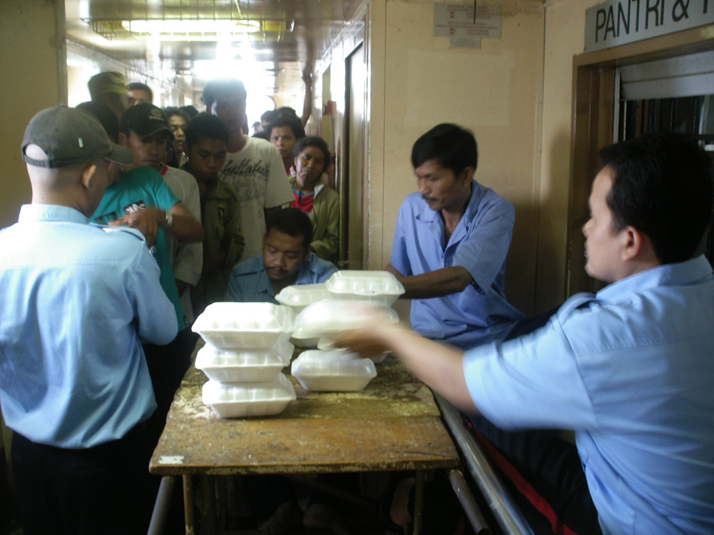 Pelni shipping (Indonesia): economic class in the KM Awu